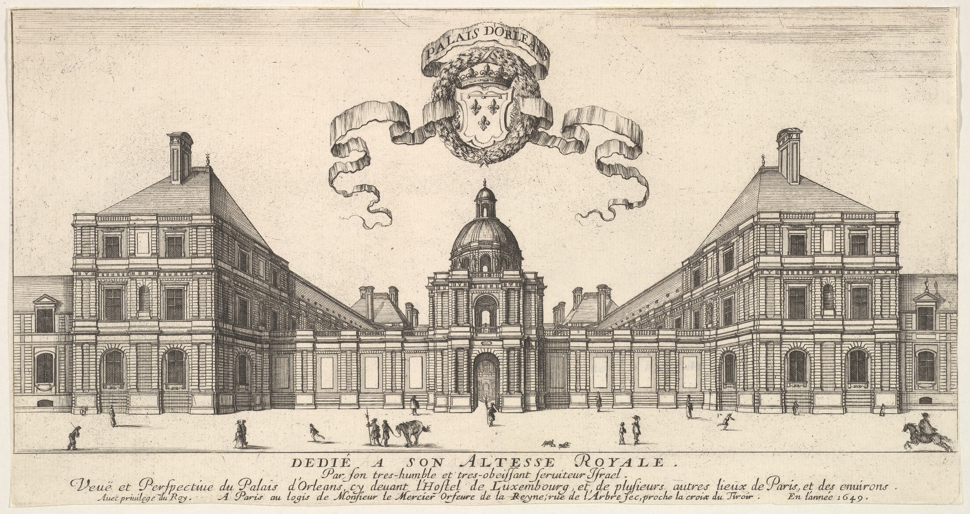 Title print (in a set of 11 prints, first published in 1649), depicting the Palais d'Orléans (Luxembourg Palace) in Paris; architecture engraved by Jean Marot, the small figures and the banner with the Orléans coat of arms, by Stefano della Bella, after a drawing by Israël Silvestre (according to Faucheux 1856–1858, p. 155). Alexandre de Vesme (Alessandro Baudi di Vesme), who prepared a 1906 catalogue of Della Bella's engravings (reprinted by Massar in 1971), finds the attribution by Faucheux to Silvestre difficult to accept (Vesme 1906, p. 227).